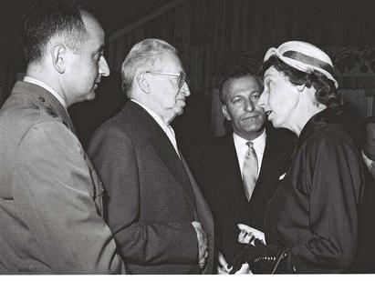 Margaret Meagher, Canadian Ambassador to Israel with Israel's President Ben Zvi, on Israel's Independent Day 1959.